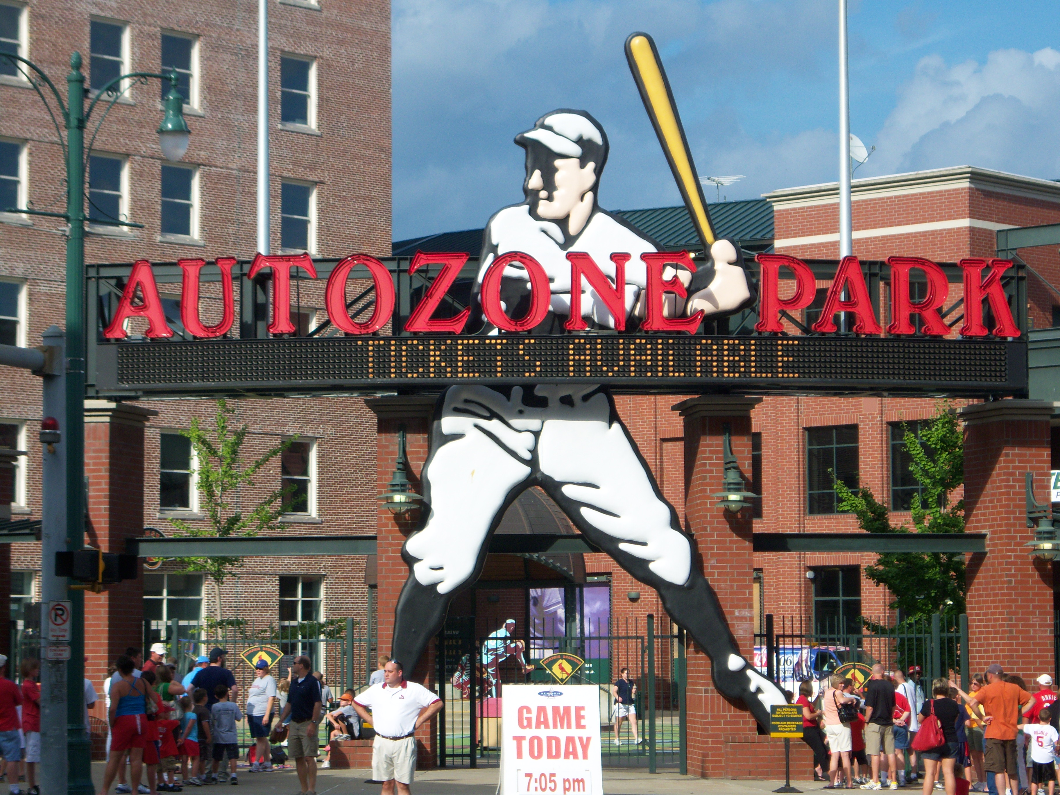 The entrance to Redbirds stadium.